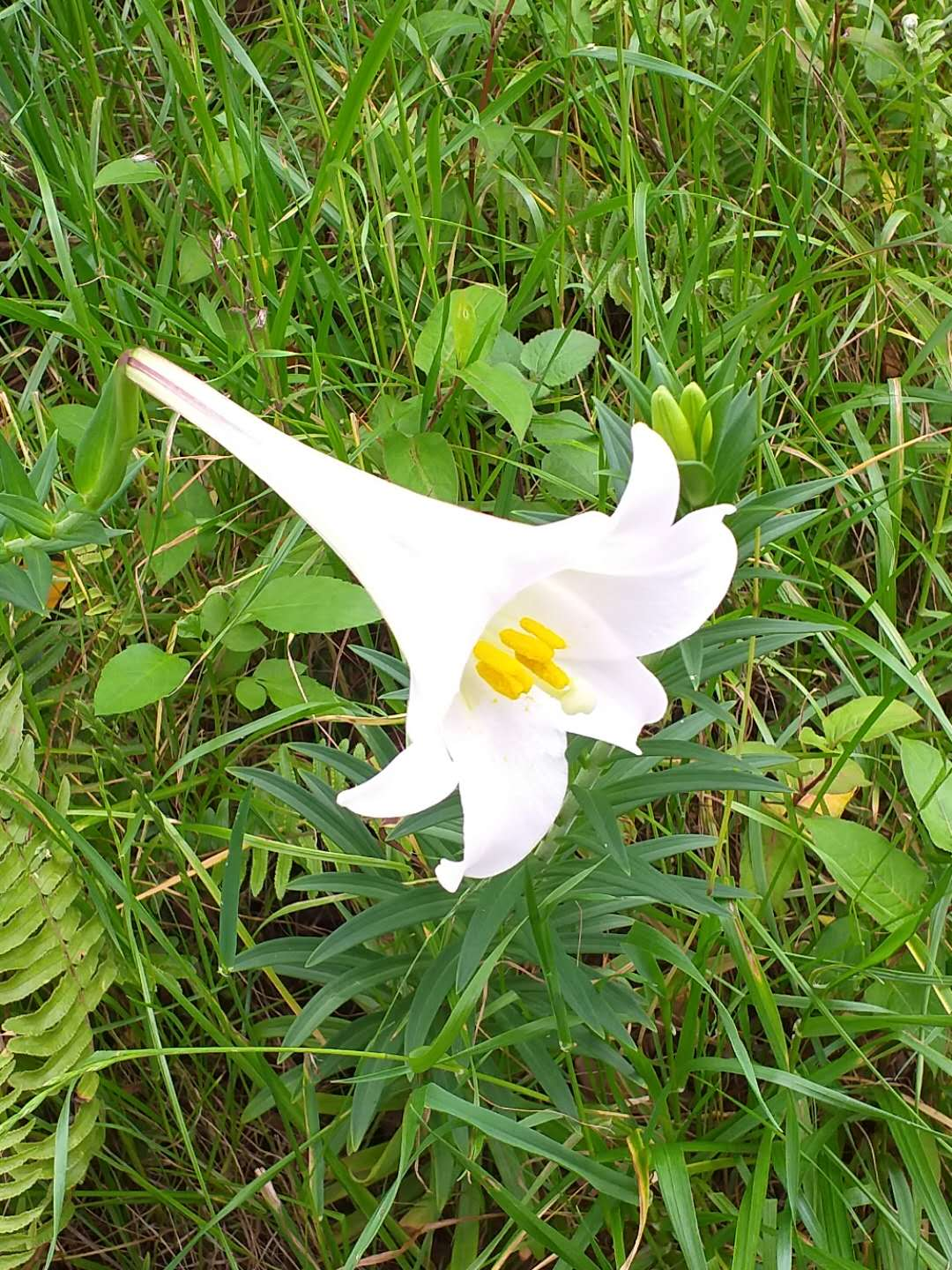 Lilium formosanum. 2018 Taichung World Flora Exposition, Taiwan.